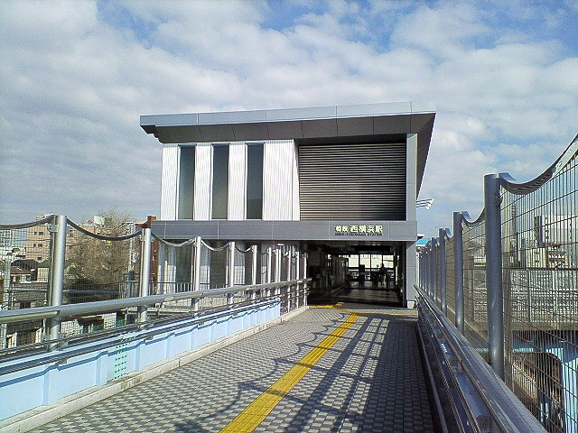 The station building of Nishi-Yokohama Station.